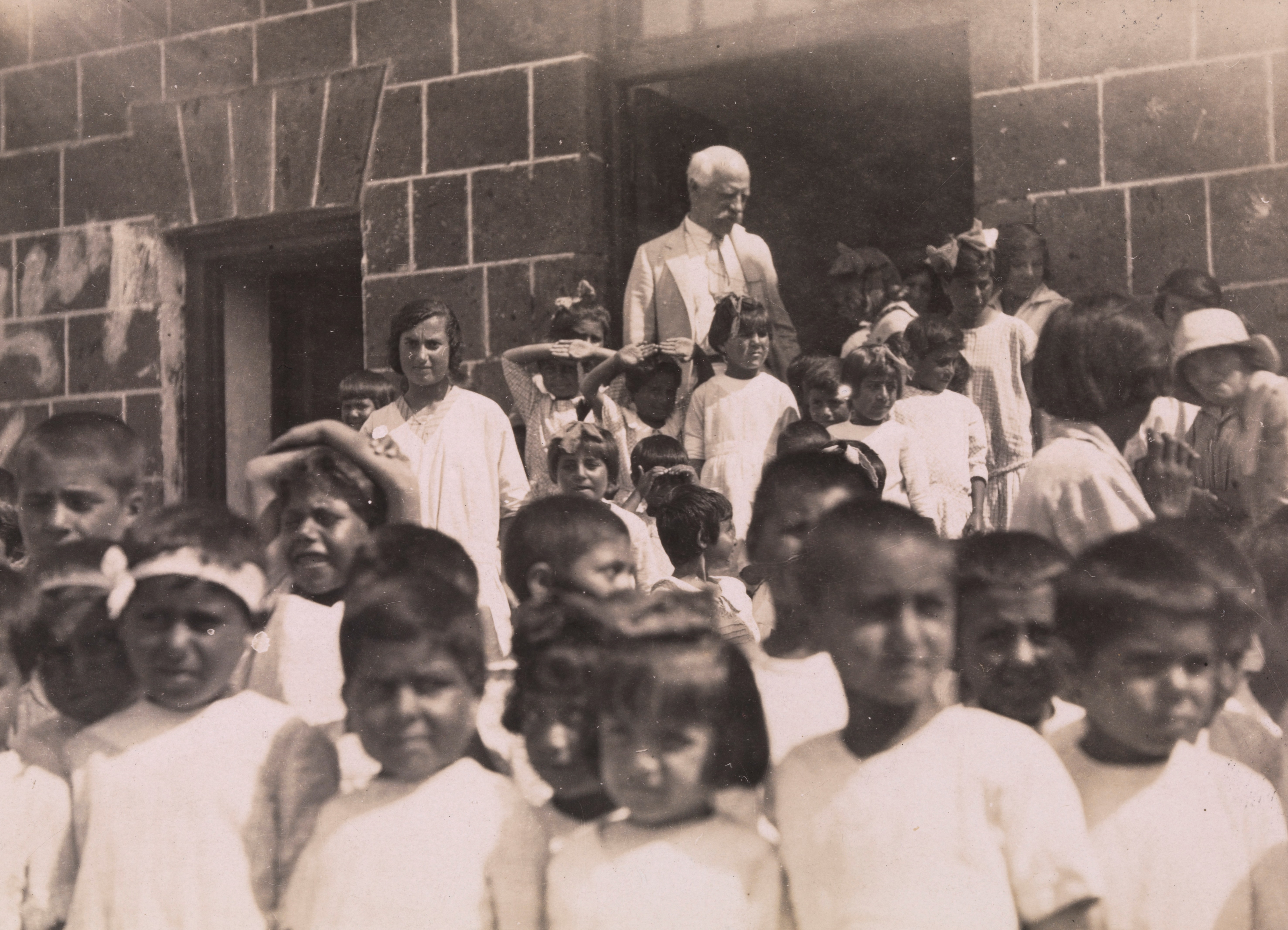 «Seversky Community». Fridtjof Nansen stands among the dressed up children in front of an orphanage for 4000 girls. The establishment was one of several under the management of Near East Reliefs. One of the pictures from the trip through Armenia, in the period June 7 to July 2, 1925. On request of the International Labour Union (ILO) and the League of Nations, Fridtjof Nansen travelled together with an appointed committee of experts, visiting the country and looking at the plans for artificial irrigation of parts of the desert, in order to relocate refugees there. (Leninakan).